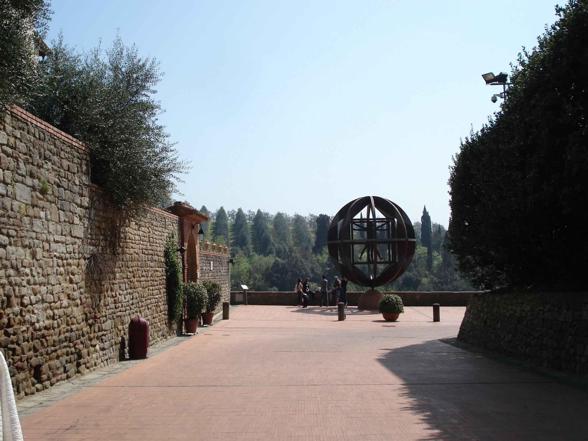 Vinci, Tuscany, Italy